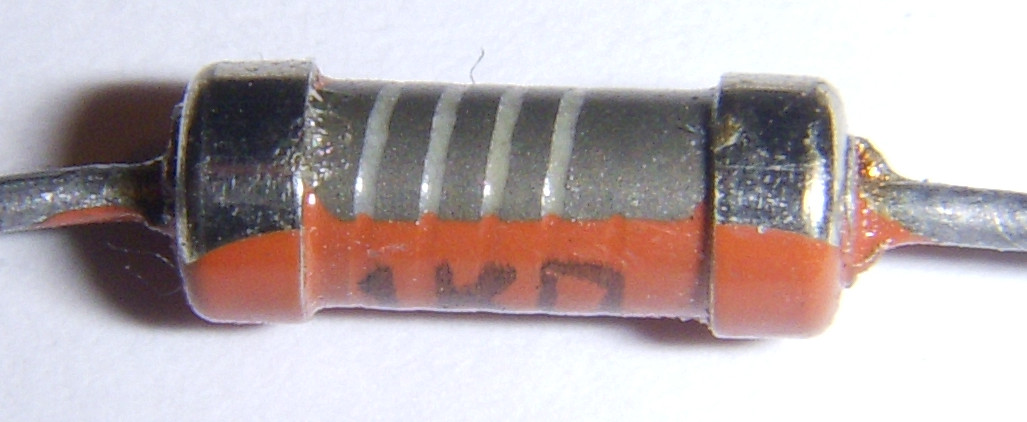 Carbon resistor TR212, 1 kiloohm, only partially coated as manufacturing mistake, carbon layer shown.